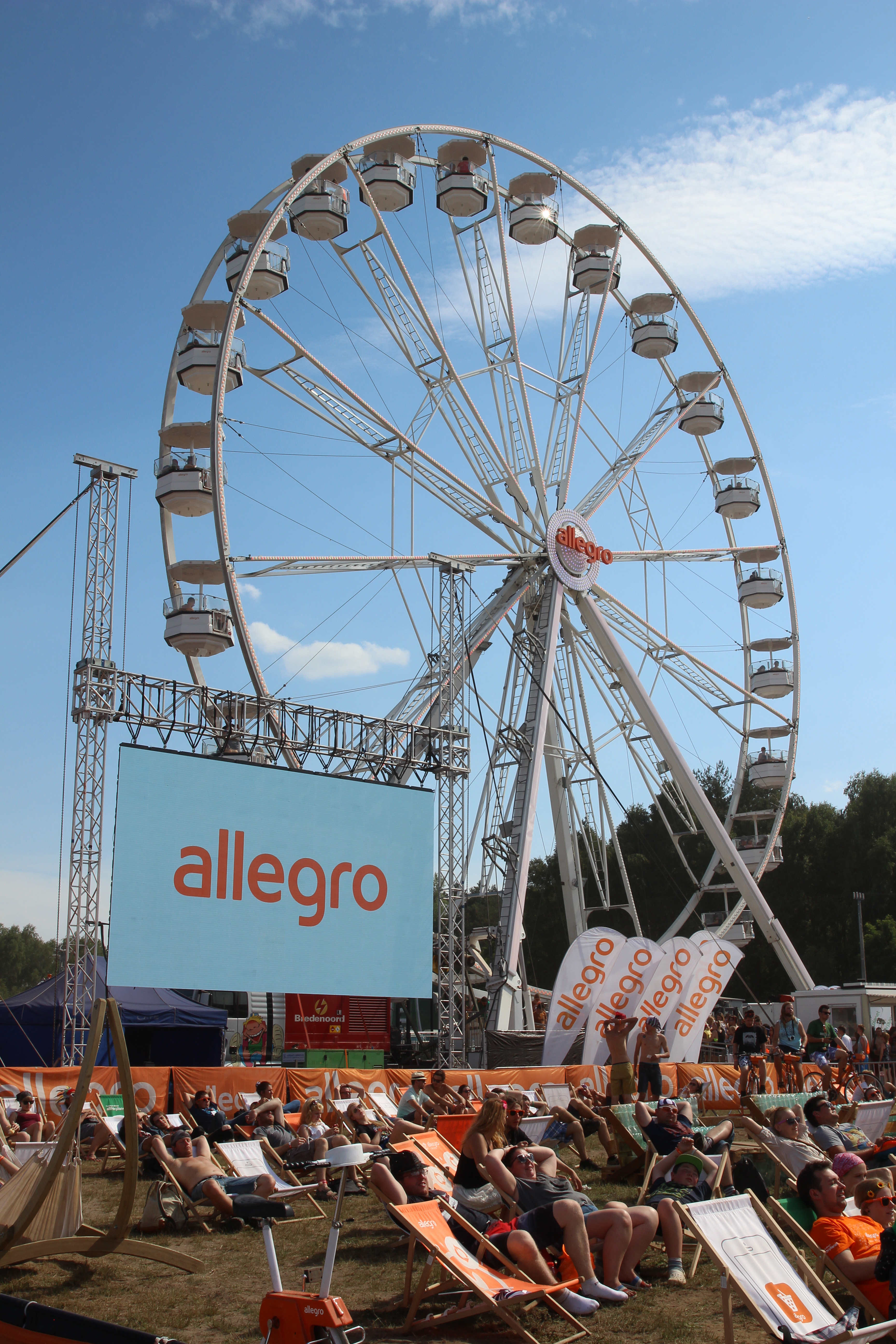 Przystanek Woodstock in 2015.